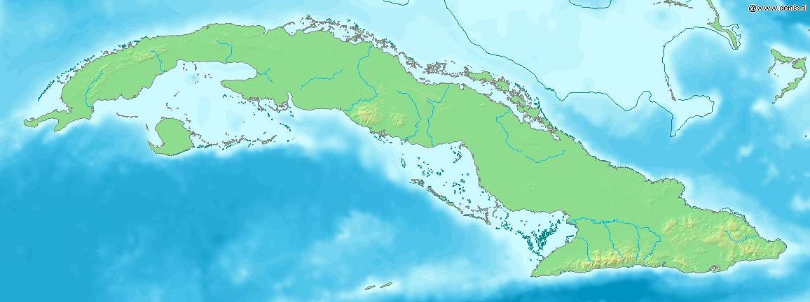 Map of Cuba. Bounding box West -85.3°, South 19.5°, East -73.8°, North 23.5°. Center at 21°30′00″N 79°33′00″W / 21.50000°N 79.55000°W.